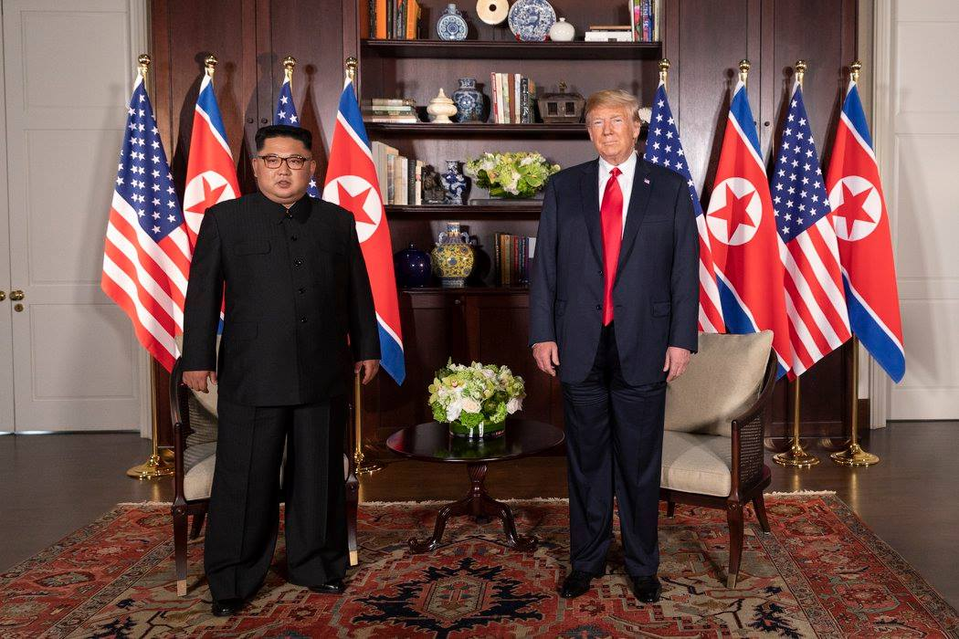 President Donald J. Trump and North Korean leader Kim Jong Un, participate in their bilateral meeting, Tuesday, June 12, 2018, at the Capella Hotel in Singapore. (Official White House Photo by Shealah Craighead)